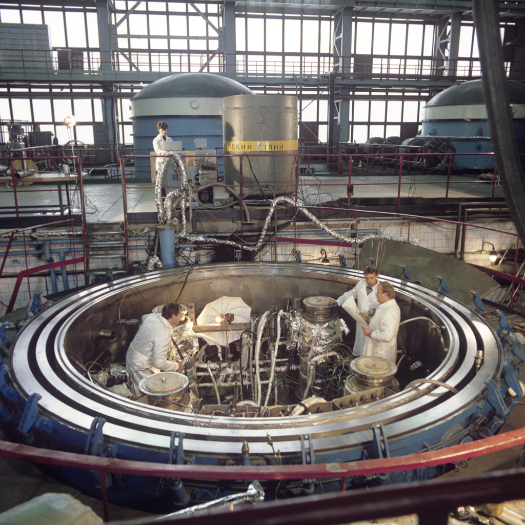 “At Kurchatov Institute of Atomic Energy”. The Kurchatov Institute of Atomic Energy. This stand will be used for magnetic systems testing.